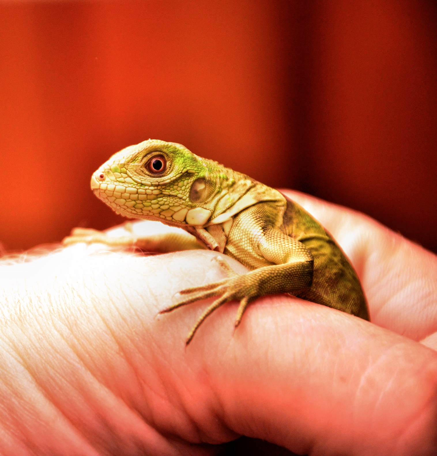 Very young Iguana came inside for a visit (Curacao, Caribbean).